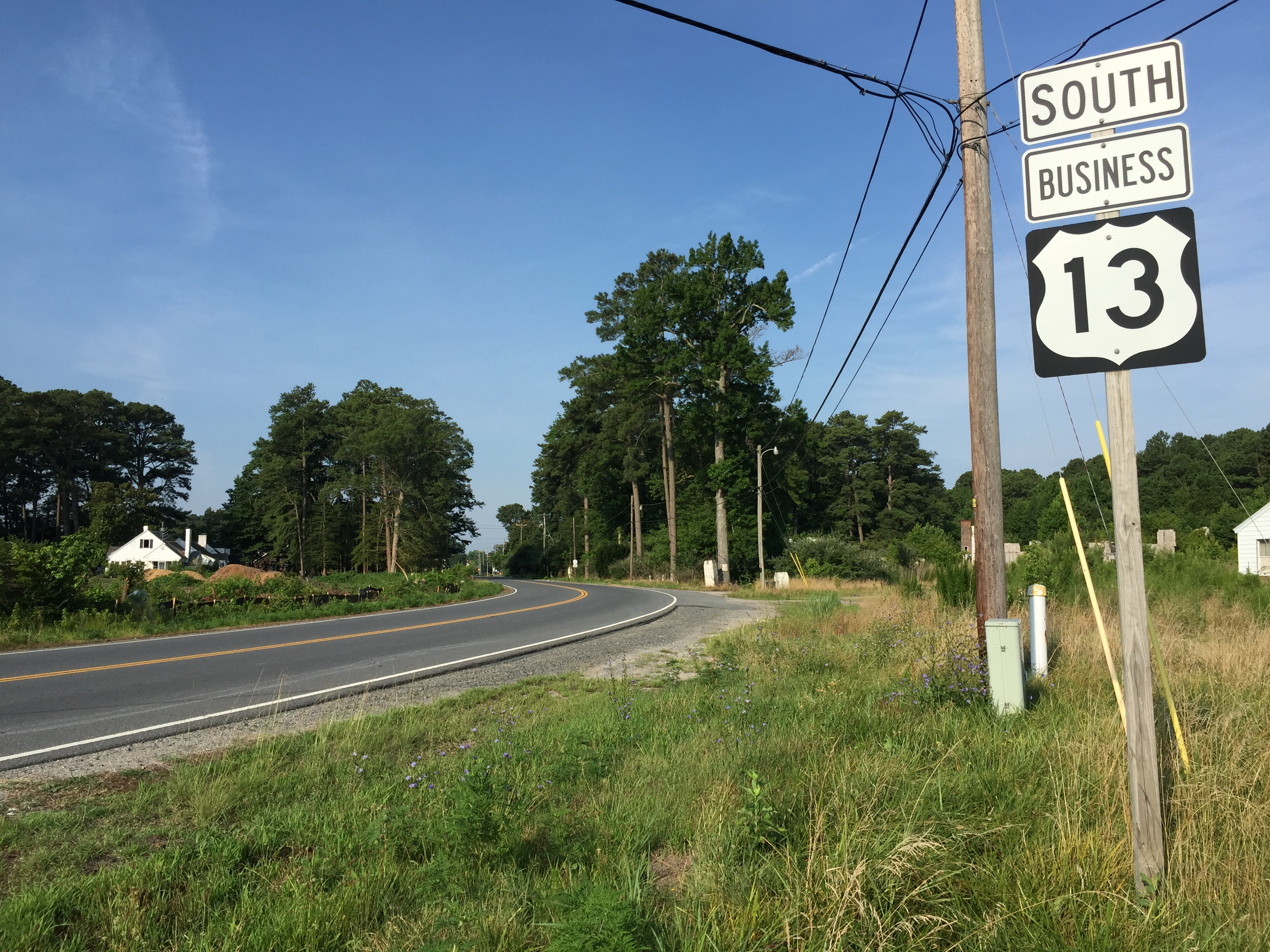 View south along U.S. Route 13 Business (Tasley Road) at Sawyer Drive (Virginia State Secondary Route 659) in Tasley, Accomack County, Virginia